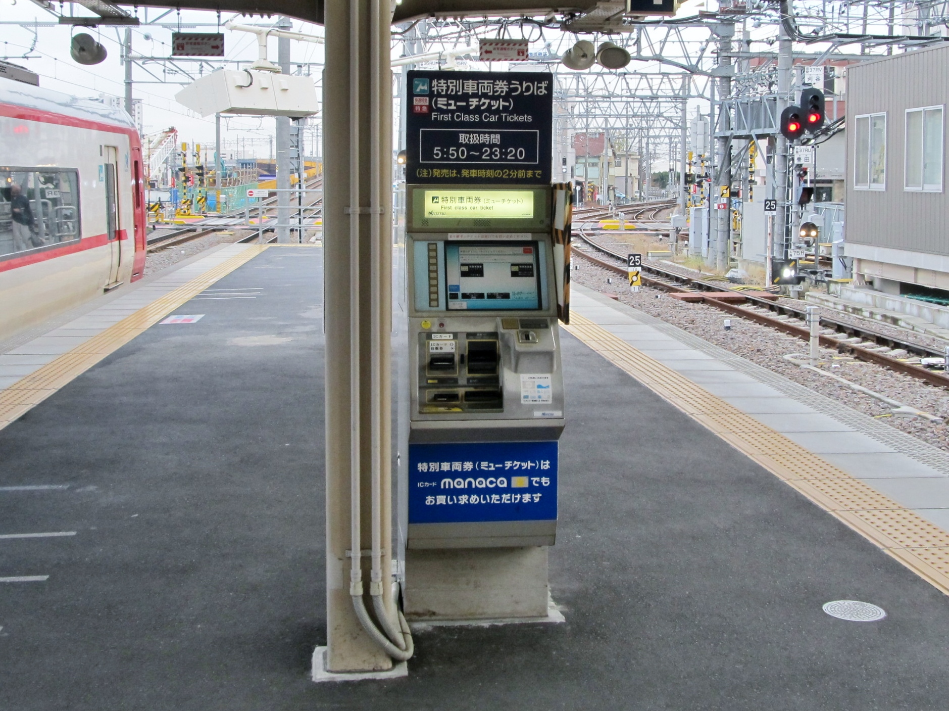 Nagoya Railroad Nagoya Main Line and Mikawa Line Chiryū Station First Class Car Tickets (μ-Tickets) vending machines on Track No.4-5 platform.